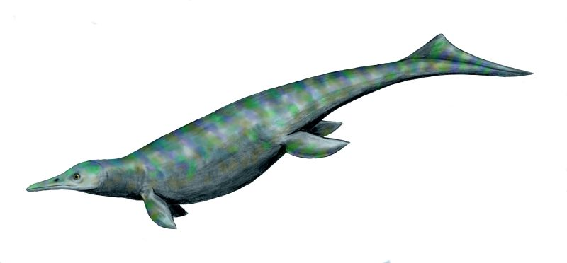 Utatsusaurus hataii, an Early Triassic Ichthyosaur from Japan, pencil drawing